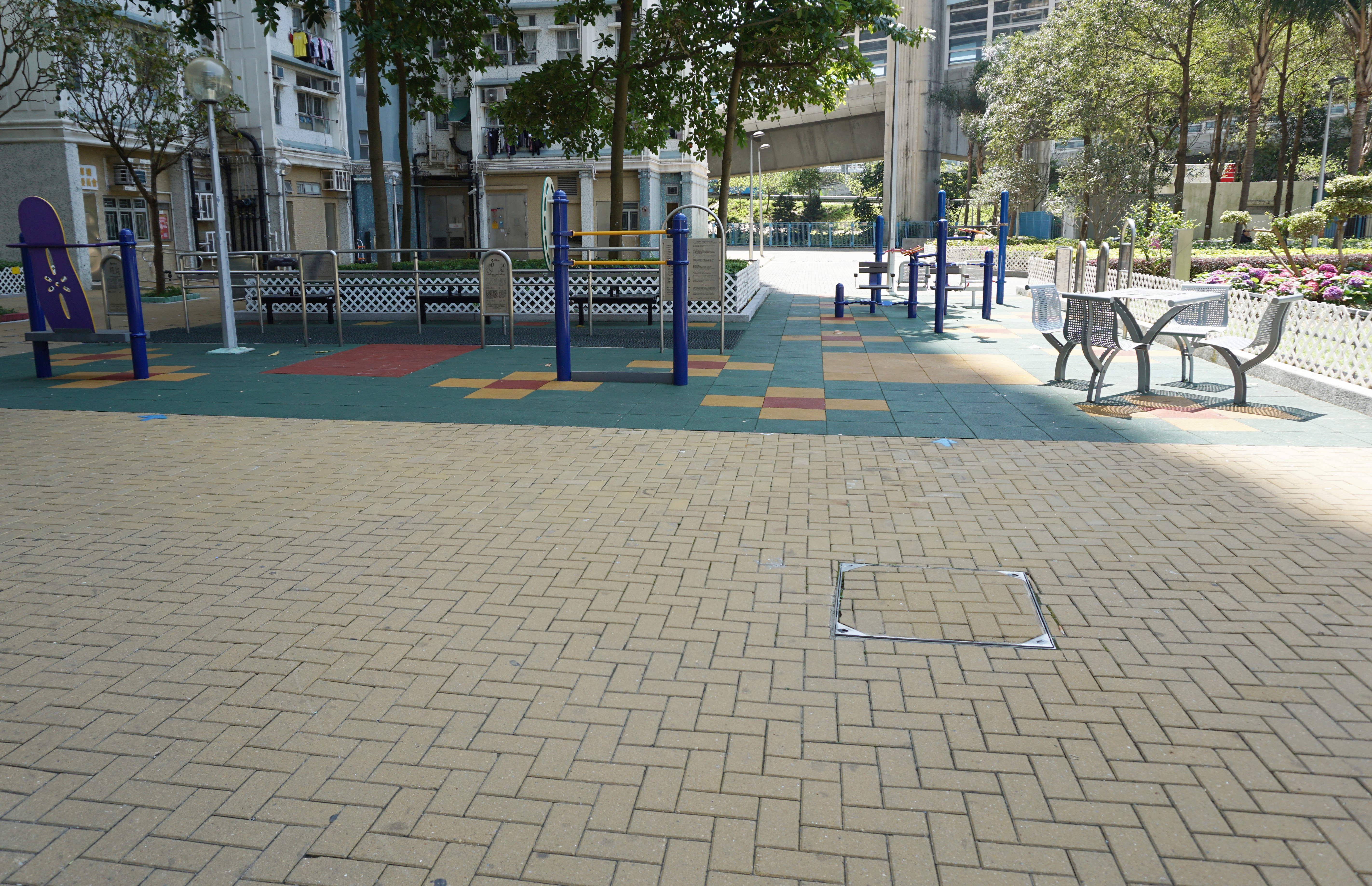 Hoi Lai Estate in Lai Chi Kok, Hong Kong.